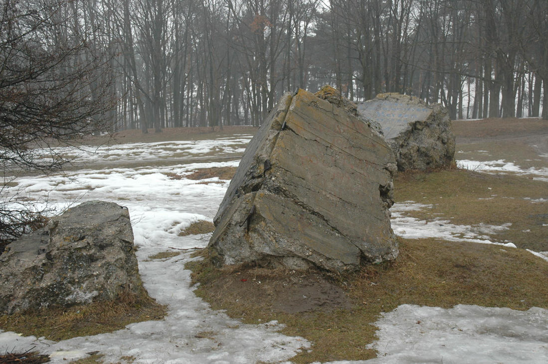 Werwolf - ruins of Hitler's headquarter near Vinnytsia